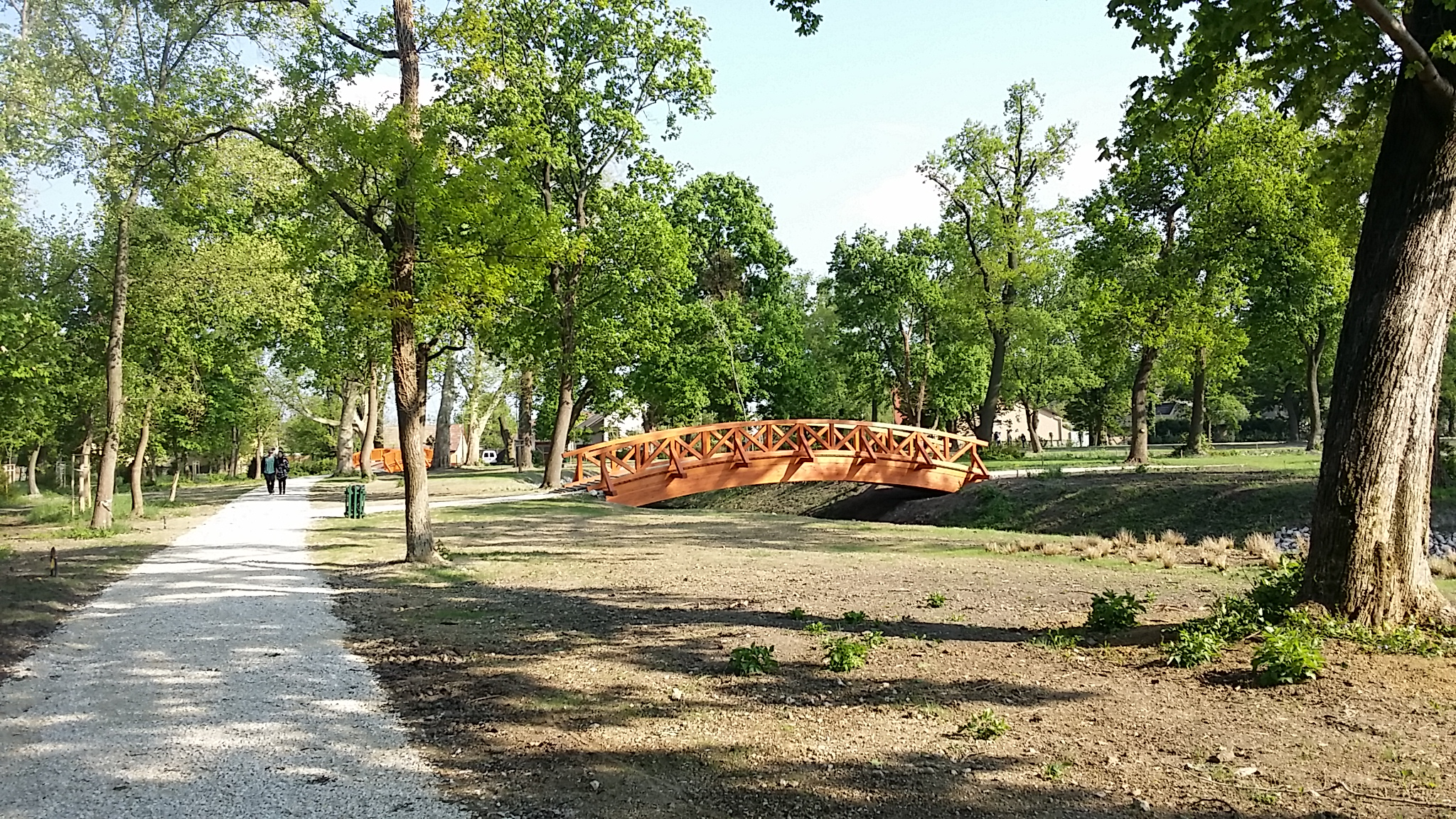 Károlyi Mansion, Fehérvárcsurgó